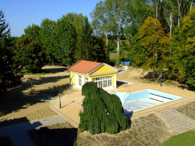 An outside pool of the Hertelendy Castle Hotel in Kutas, Hungary Hertelendy Kastélyhotel külső medence.